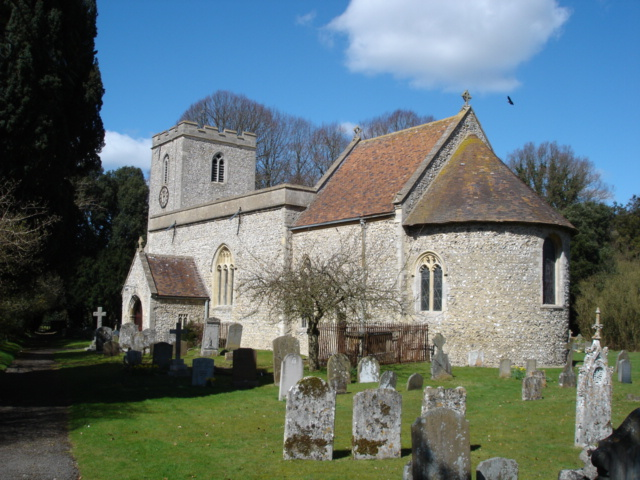 Church of England parish church of Saints Peter and Paul, Checkendon, Oxfordshire.